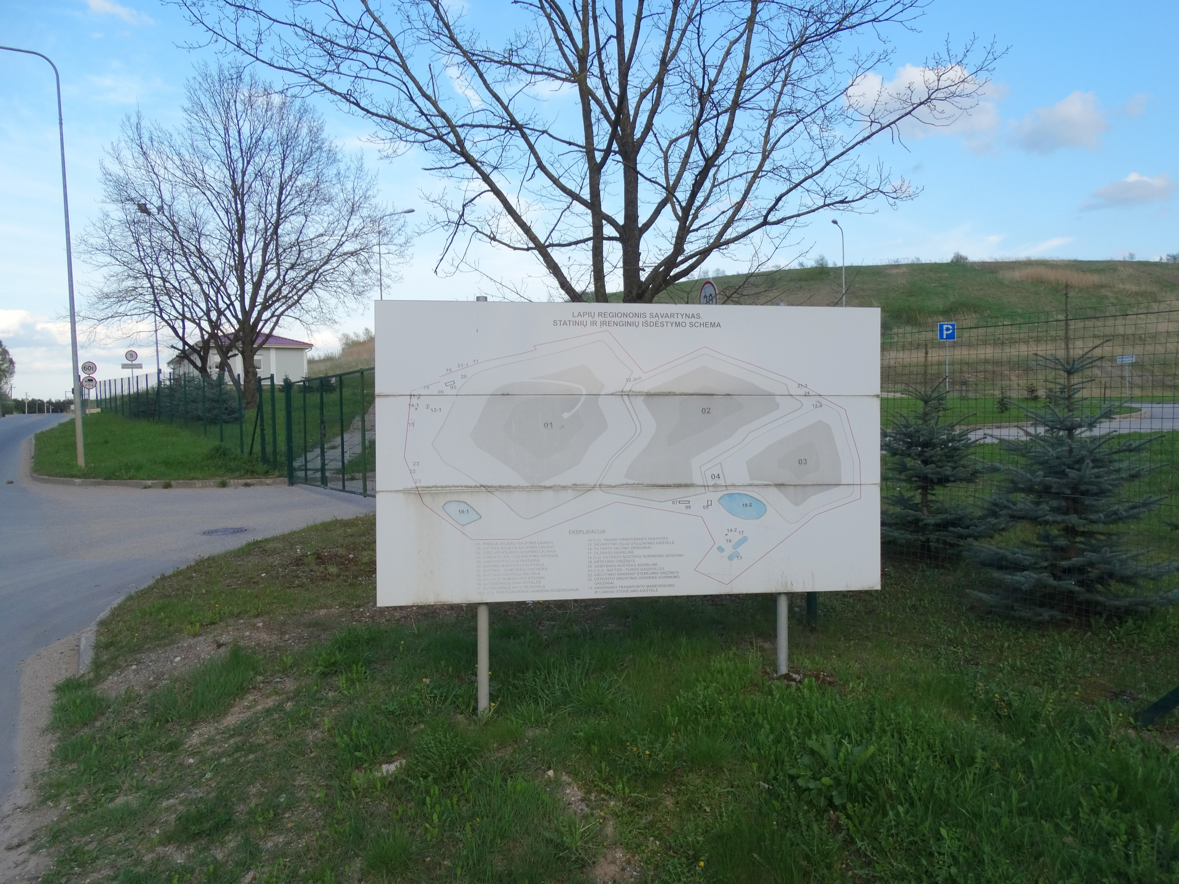 Landfill in Lapės, Kaunas district, Lithuania